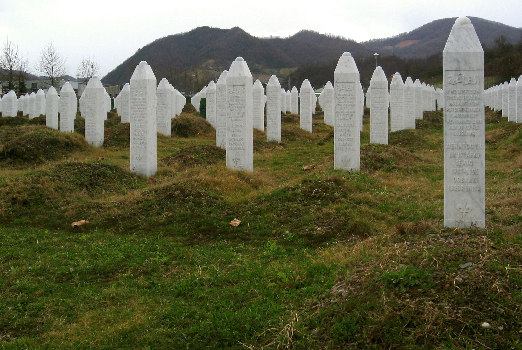 Gravestones at the Potočari genocide memorial near Srebrenica